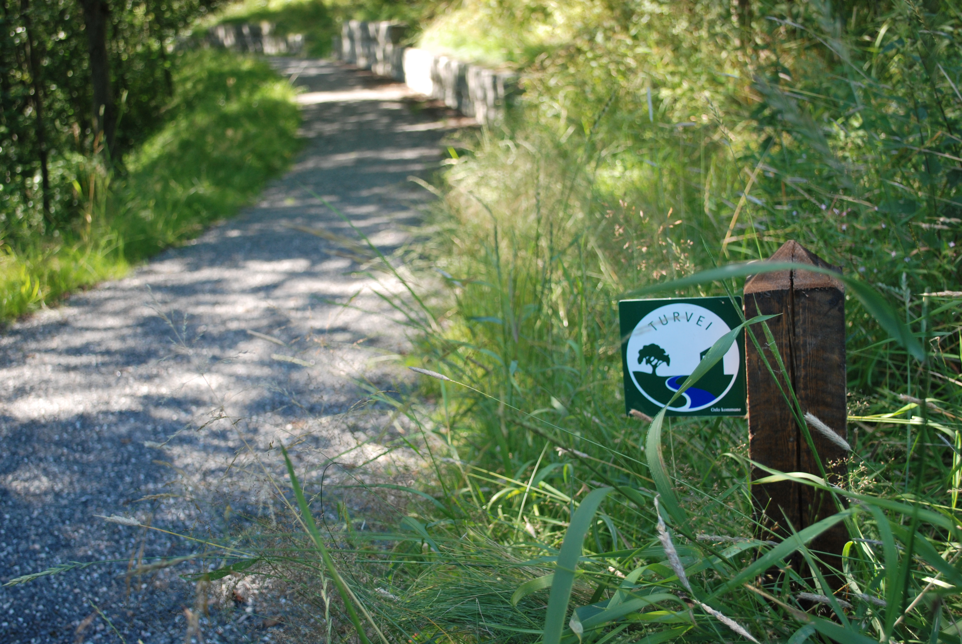 Mark "Turvei" (park trail), Alnaparken, Oslo